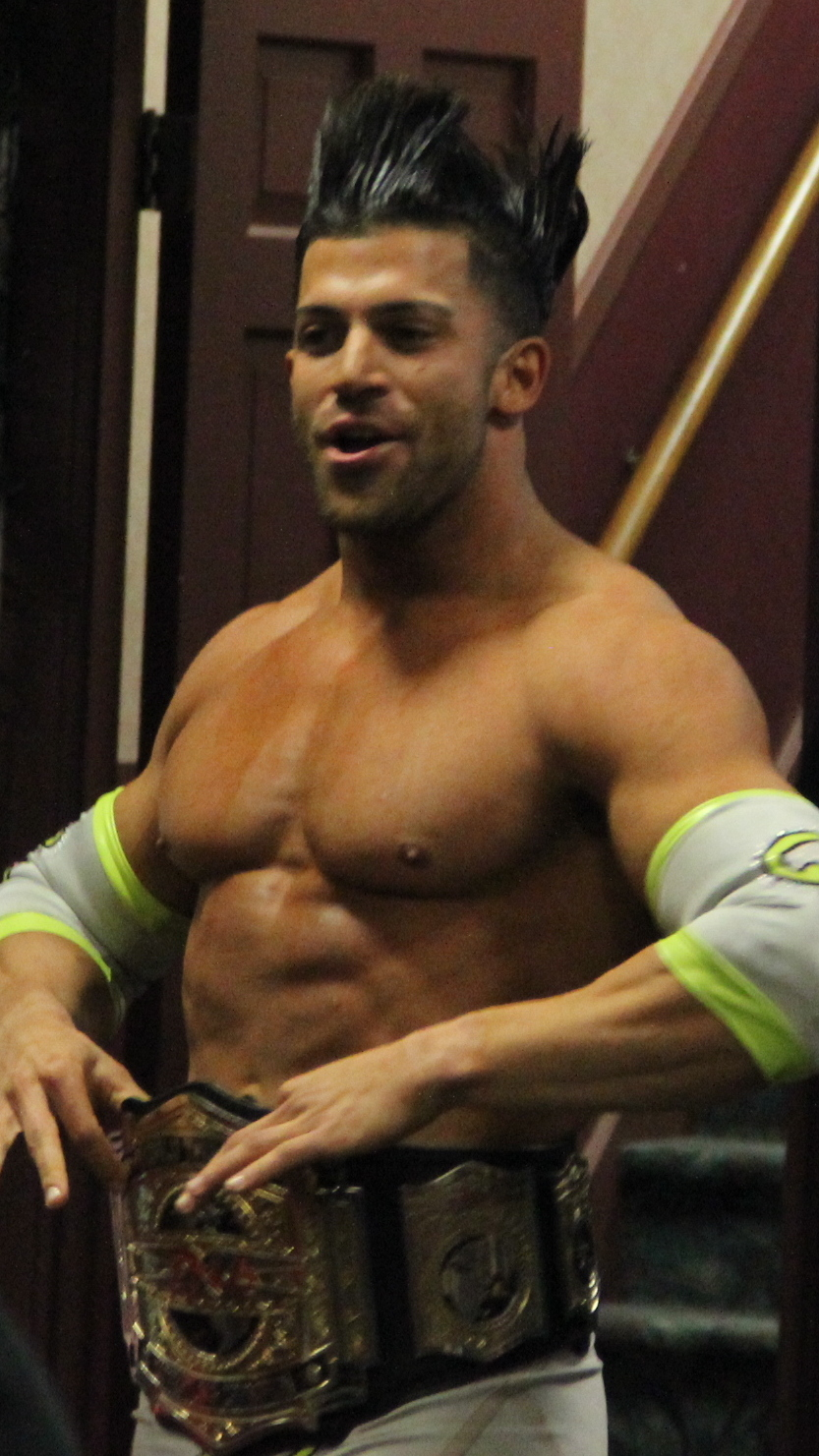 Robbie E (Rob Strauss) as the TNA World Tag Team Championship in December 2013. Cropped from original.